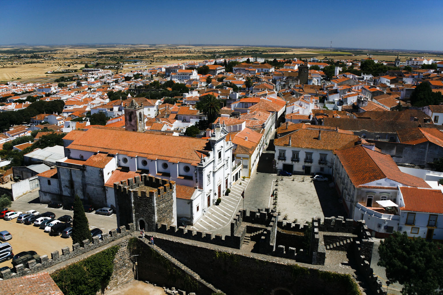 Beja (Portugal), town view from above the city tower.